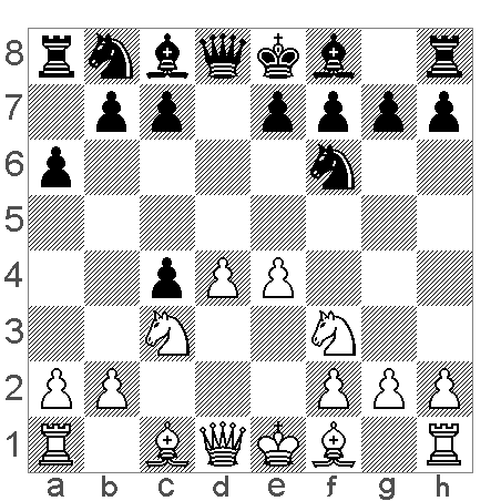 chess diagram Bogolyubov gambit in Accepted Queen's gambit Source: CBlight + my processing